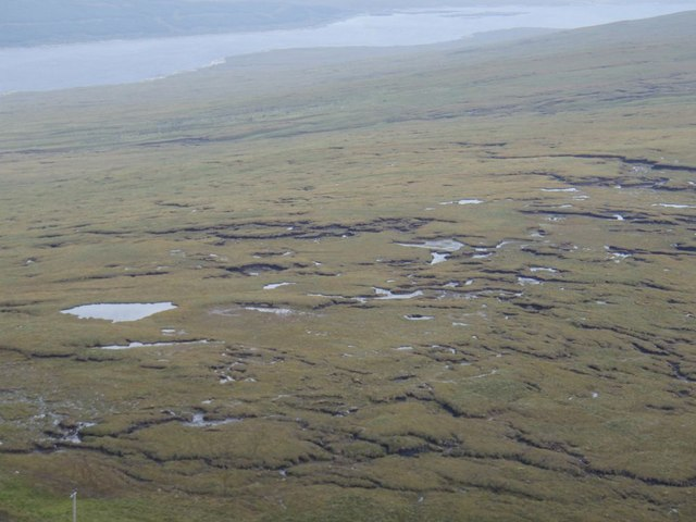 The Flow Country in Sutherland. A very small part of the 4000 sq km blanket bog in Sutherland and Caithness taken from near the top of Maovally. The drizzle encourages the feeling of total saturation! The lochans seems to follow the line of the watershed. The ridges seem to be bog "stretch marks" as it flows down the slope in the foreground to Glen Cassley and in the background to Loch Shin.